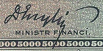 Signature of Czech economist (later governor of the Czechoslovak National Bank), lawyer and politician, then Czechoslovak finance minister Karel Engliš